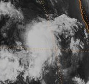 This shows TS Nana at 6pm on October 12, 2008. The storm had formed at 5pm that day. Try to get a better image soon!